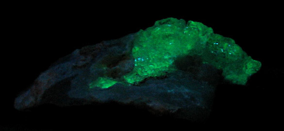 Fluorescent hyalite under ultraviolet light. Photograph taken at the Natural History Museum, London.